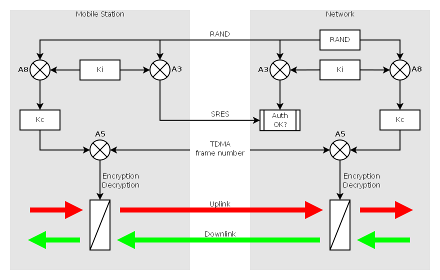 Overview showing the relation between the A3, A5 and A8 algorithms in GSM